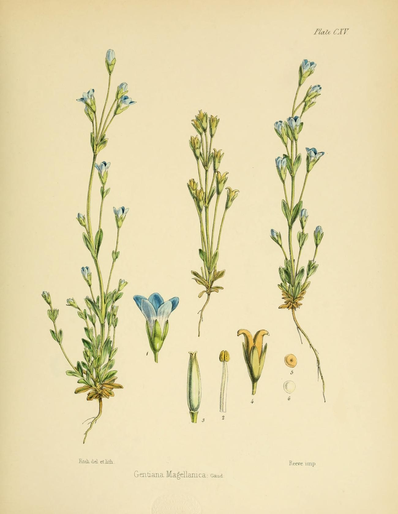 jpg of Plate CXV of Hooker's Flora Antarctica. Gentiana magellanica Gaud